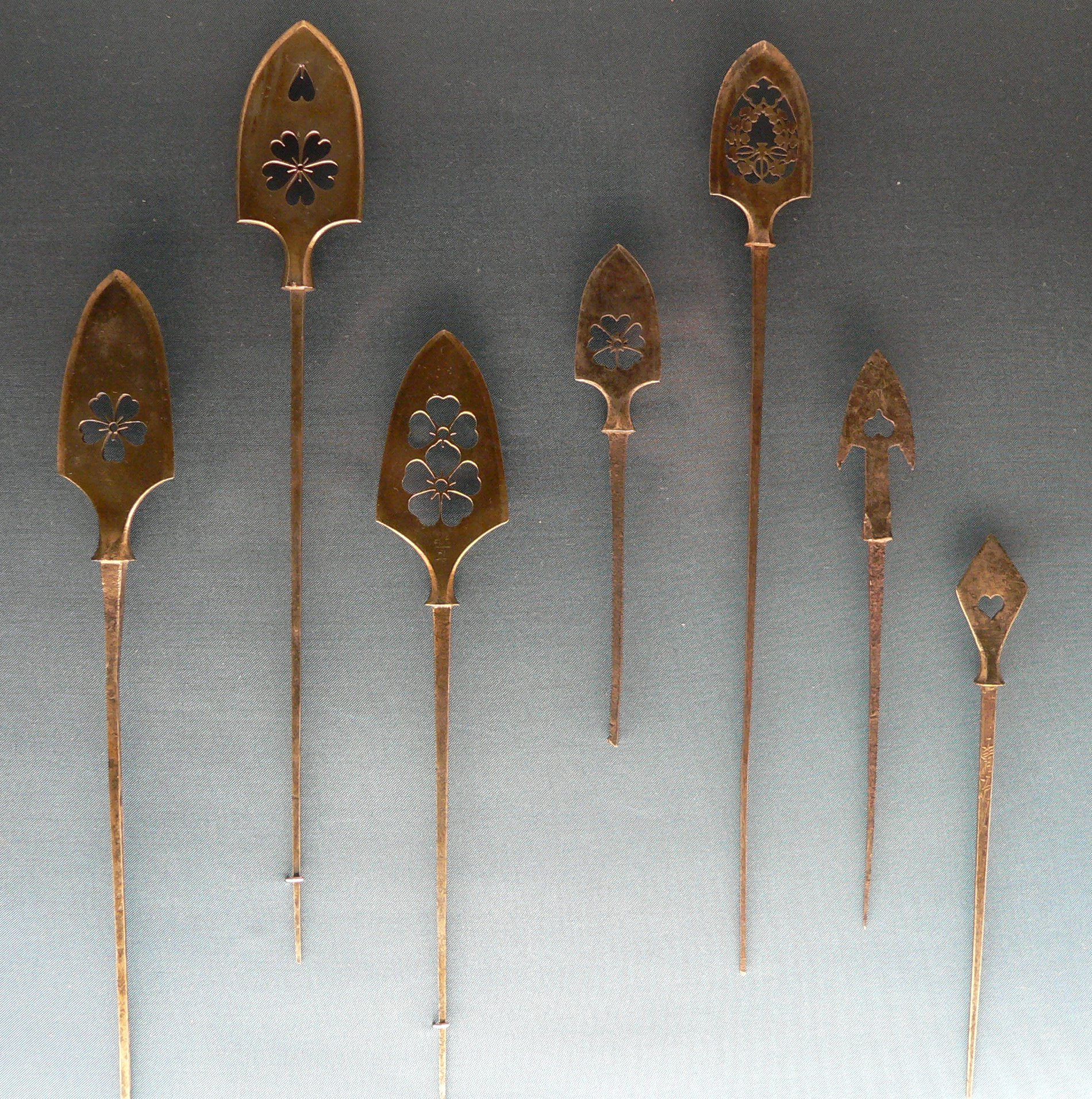 Japanese arrowheads (yajiri / yanone)